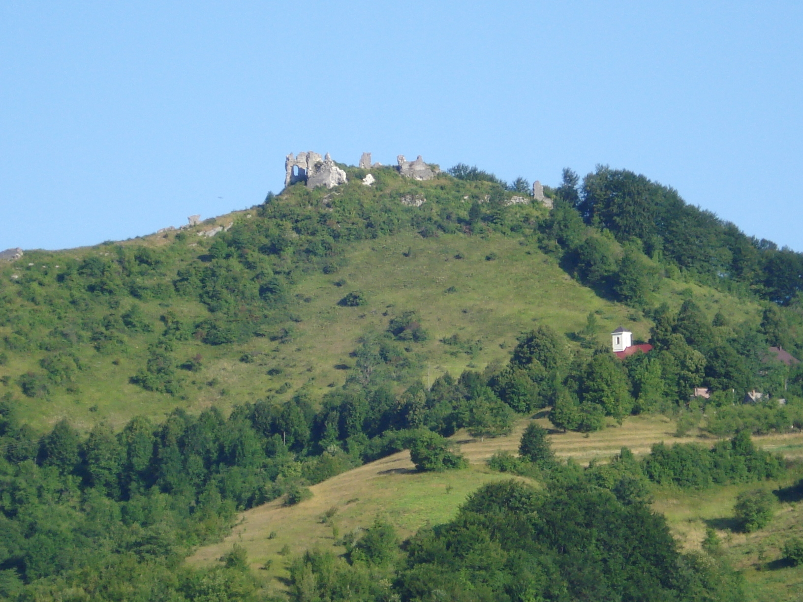 Ruins of Tržan Castle in Modruš (Croatia) - panoramic view